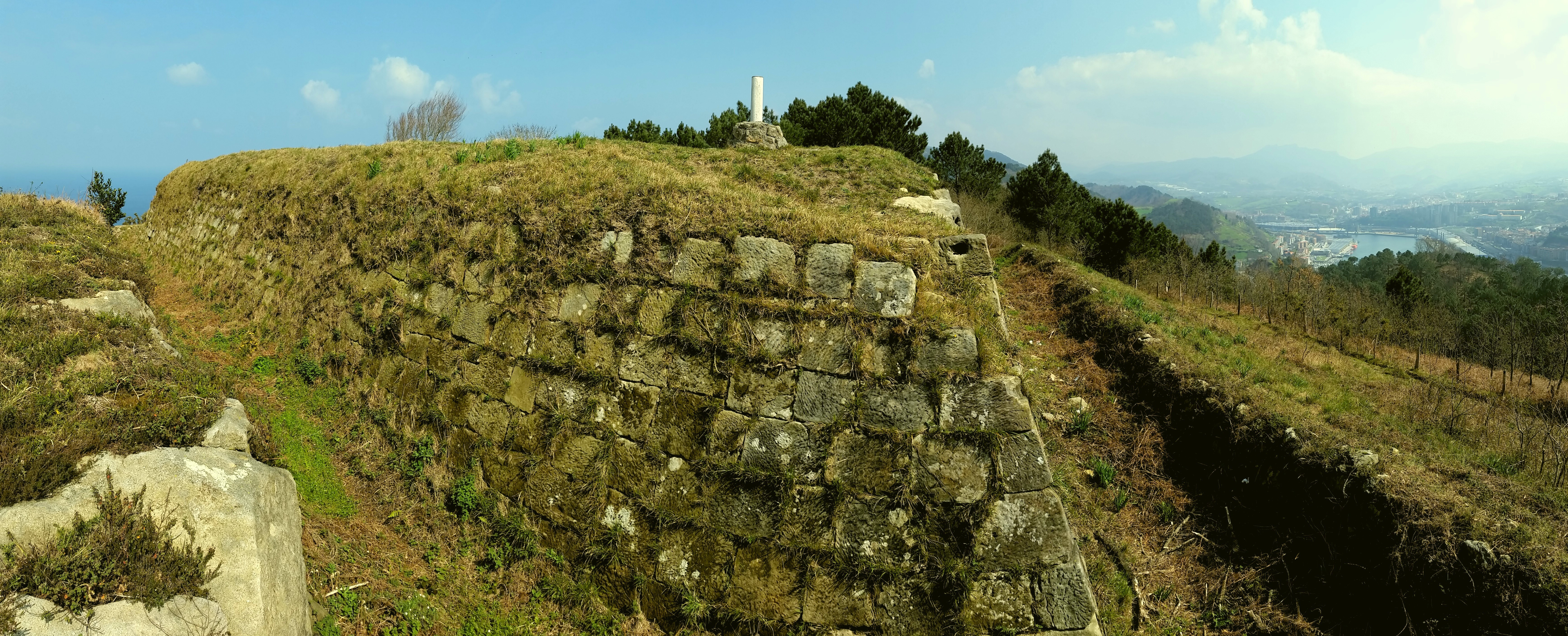 Fort English or Admiral's Fort in Ulia Mountain at Donostia-Saint Sebastian West and south facades.